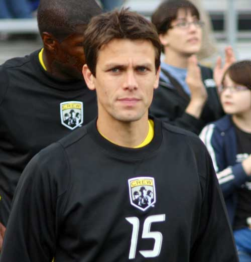 Stefani Miglioranzi of the Columbus Crew photographed during the half time warmups during the game that took place at Columbus Crew Stadium, on April 26, 2008 vs Huston. Photography by Jim Early.